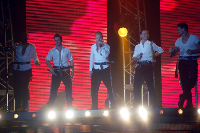 Irish boyband Boyzone